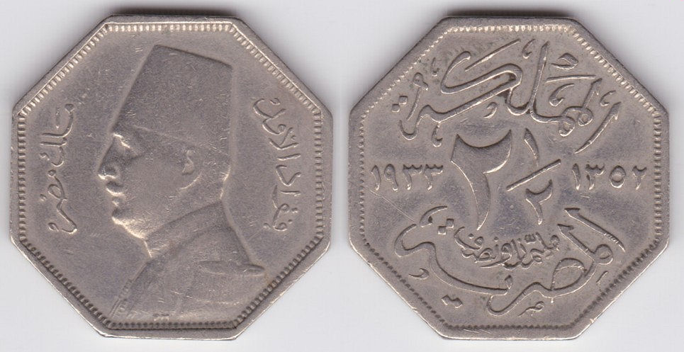 Egypt 1933, 2.5 Milliemes, copper-nickel, octagonal